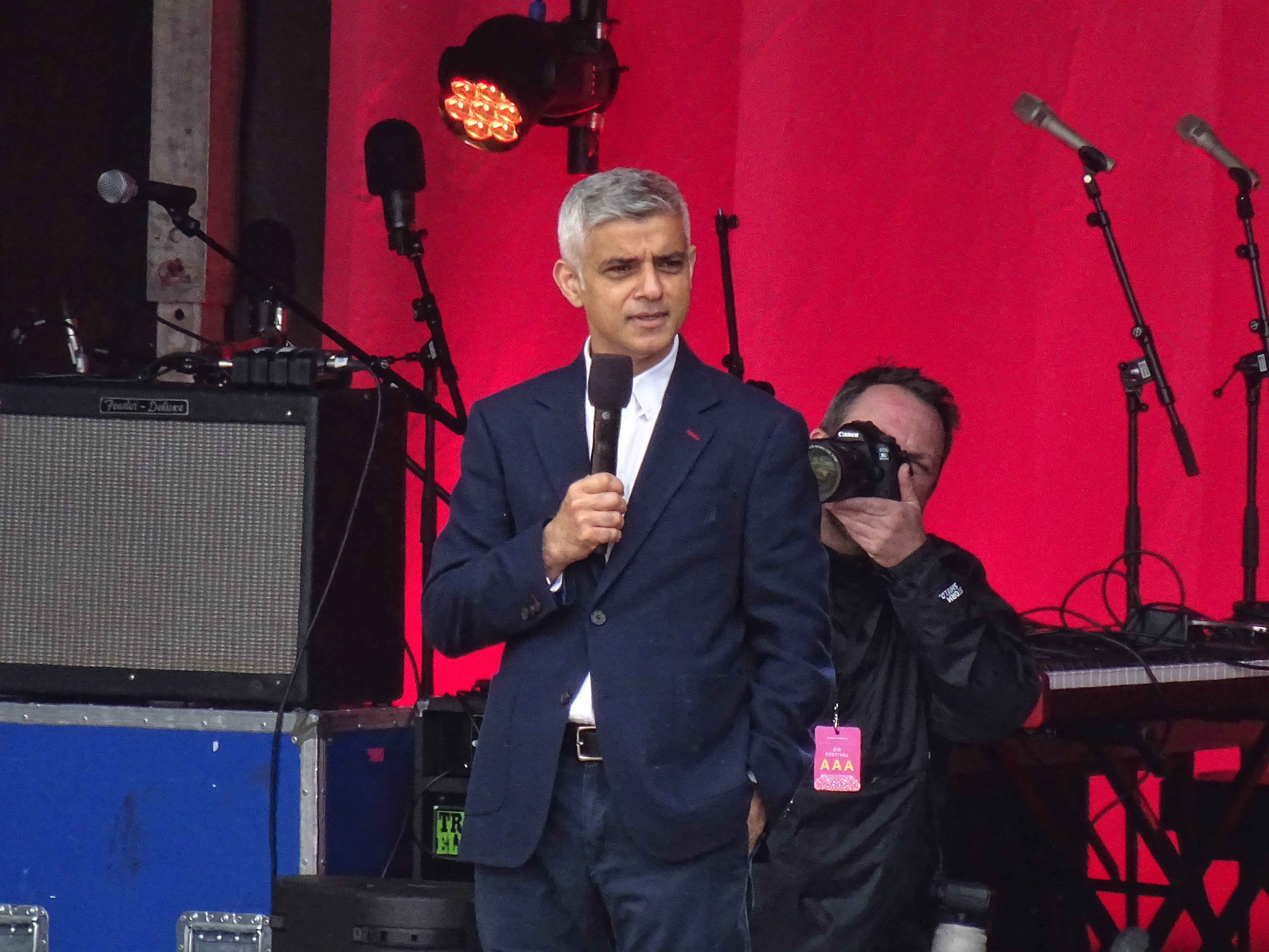 London June 8 2019 (79) Eid Trafalgar Square Mayor Sadiq Khan